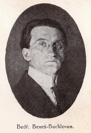 Bedřich Beneš Buchlovan (1885-1953), czech writer